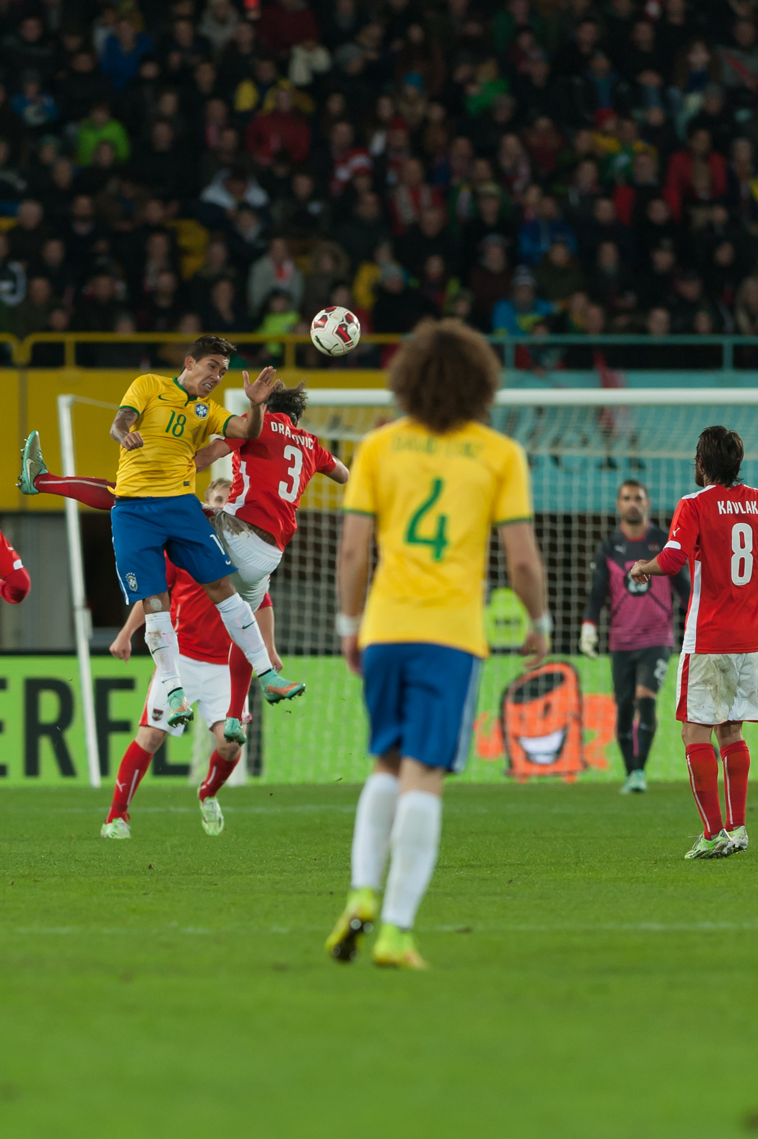 International Friendly Austria - Brazil November 18, 2014: Firmino